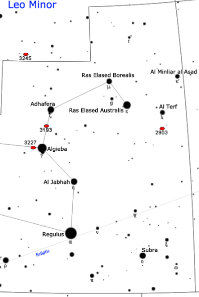 upper right section of Leo